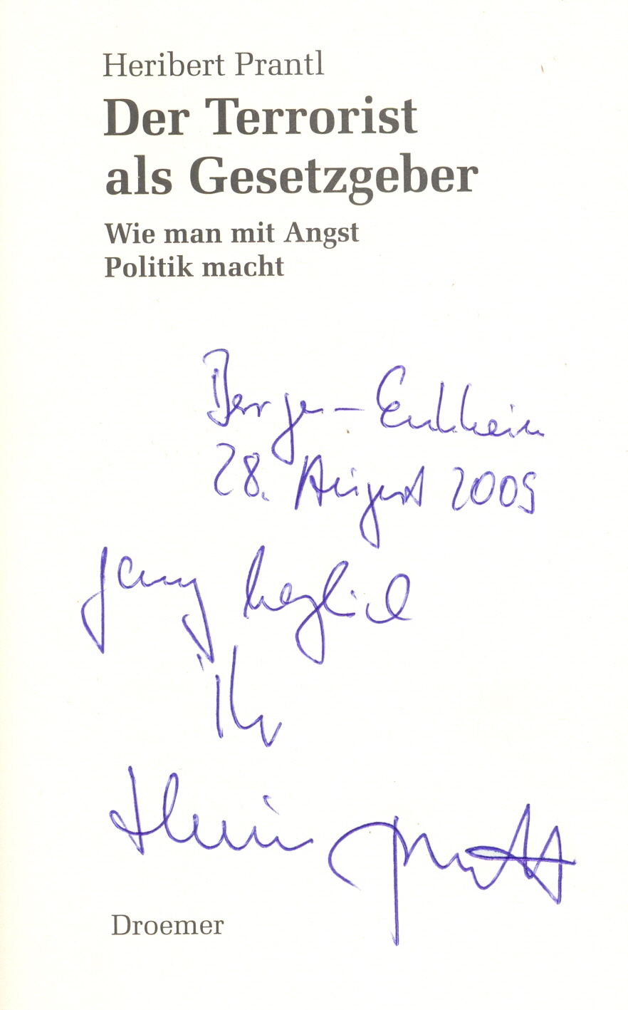 Autograph from Heribert Prantl